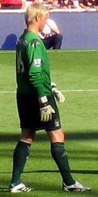 Kasper Schmeichel. Image cropped from original at flickr.